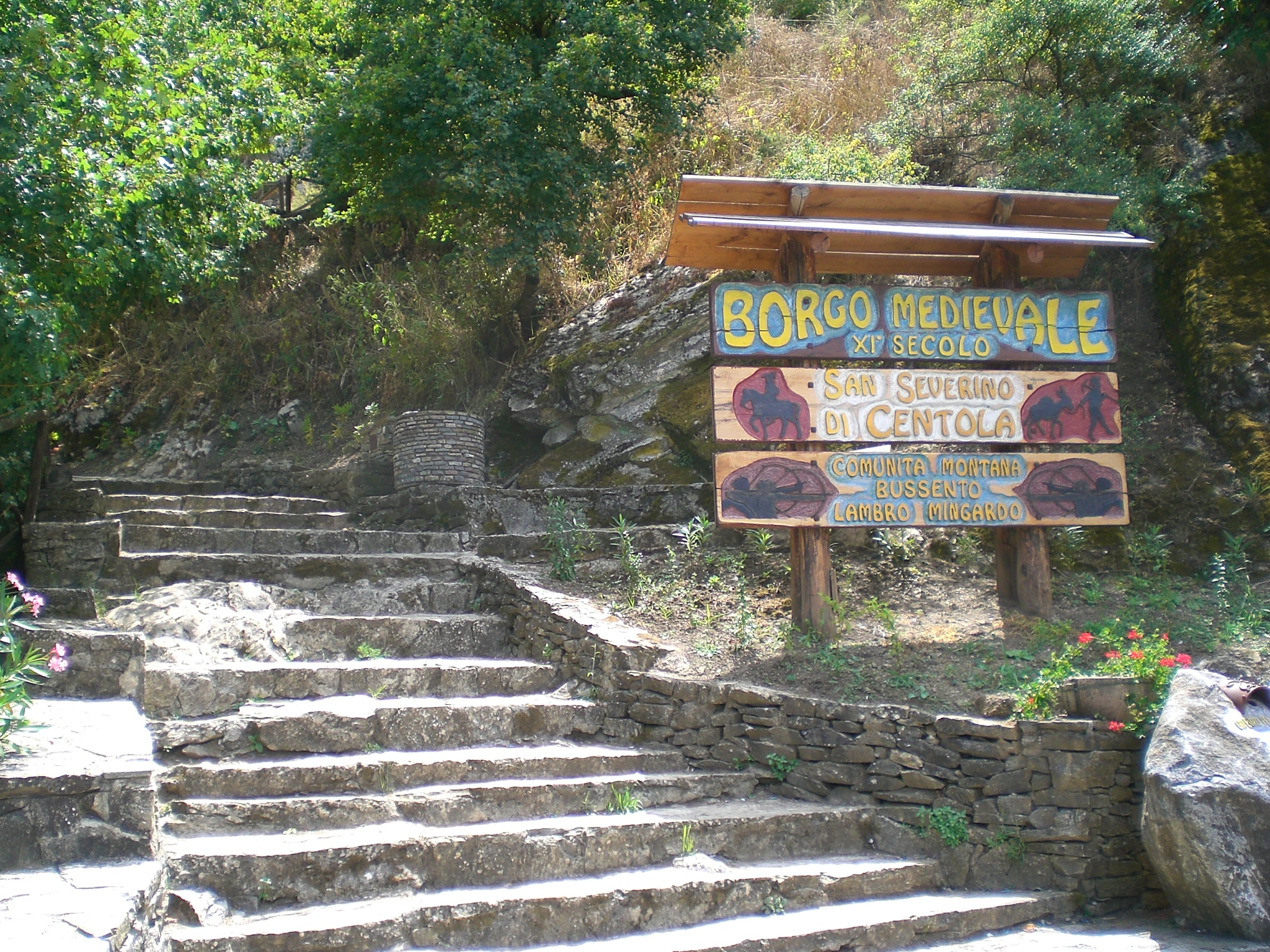 Entrance walkway to Severino di Centola — in the Cilento region of the Province of Salerno, Campania, southern Italy. Within Cilento and Vallo di Diano National Park.